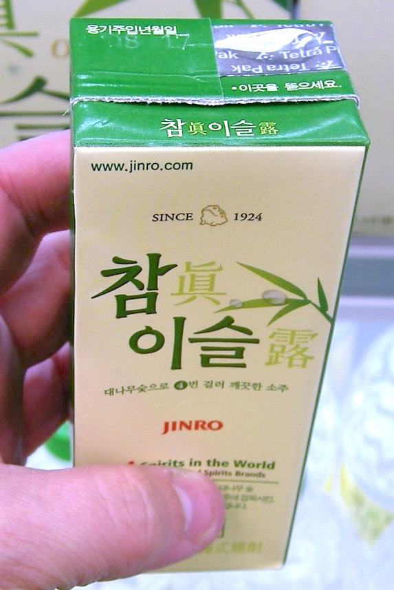 Soju packaged in a small "juice box" style carton.